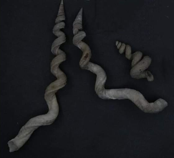 Edited photograph of three Turritellidae (Vermicularia sp.) from the collection of Naturalis Biodiversity Center.